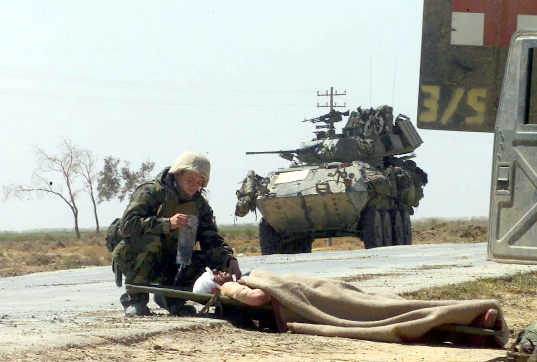 Central Command Area of Responsibility (Apr. 2, 2003) -- Hospital Corpsman 3rd Class Christopher Pavicek from Escondido, Calif., provides aid to a wounded Iraqi soldier after a firefight with 1st Light Armored Reconnaissance Battalion outside the town of Nu'maniyah in support of Operation Enduring Freedom. (RELEASED)